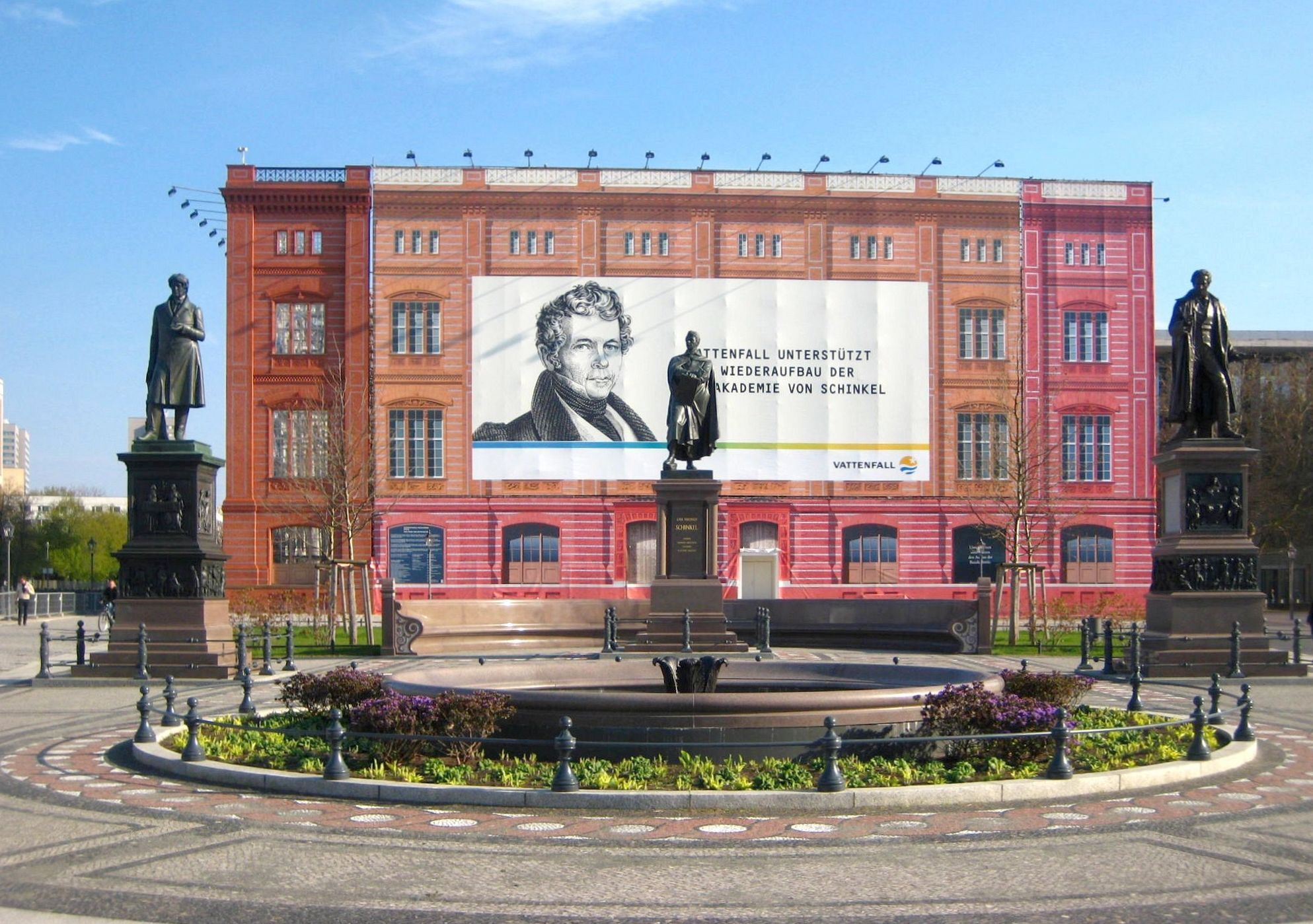 The reconstructed Schinkelplatz in Berlin-Mitte with bronze sculptures of (from left) Peter Christian Beuth (1861 by August Kiss), Karl Friedrich Schinkel (1867-1869 by Friedrich Drake) and Albrecht von Thaer (1858-1859 by Christian Daniel Rauch and Hugo Hagen, recast from 2000) in front of the mock-up of Schinkel's Building Academy. The three sculptures have been designated as a historic landmark.